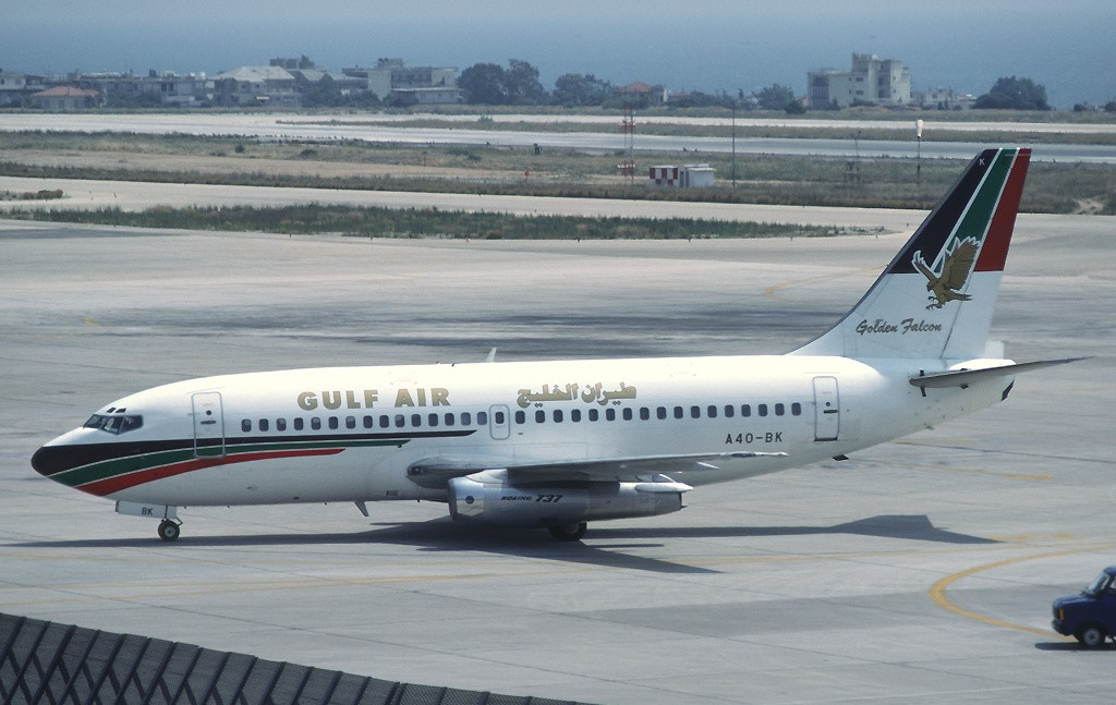 Aircraft Gulf Air Boeing 737-2P6/Adv Reg.: A4O-BK MSN: 21734 Line No.: 566 Location & Date Athens (- Hellinikon) (ATH / LGAT) [CLOSED] Greece - July 31, 1983